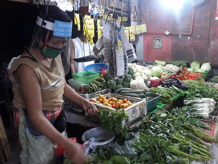 A vendor in a Manila public market with acetate full face shield provided by Manila City Government.